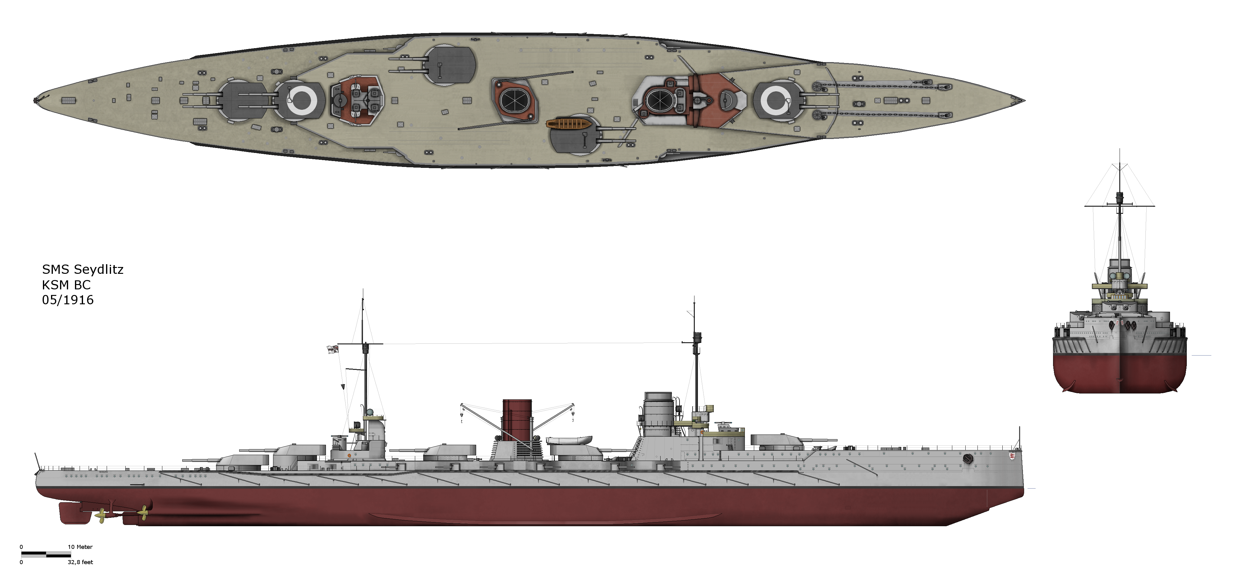 Drawing of the SMS Seydlitz in her configuration in May 1916. Additional info obtained from: Gary Staff: German Battlecruisers of World War One., Pen & Sword Books, 2014, ISBN 978-1848322134 Gerhard Koop), Klaus Schmolke: Vom Original zum Modell, Die großen Kreuzer - Von der Tann, Moltke-Klasse, Seydlitz, Derfflinger-Klasse Bernard & Graefe, 1997, ISBN 3763759735 Various photographs